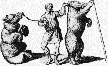 Training of bears